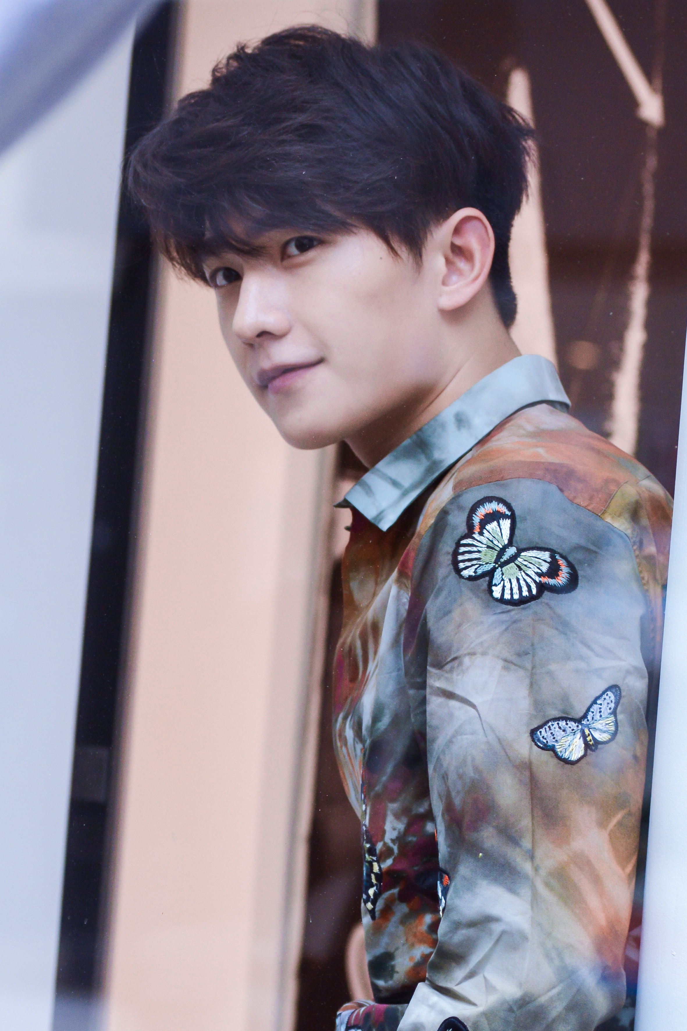 Yangyang a paris 2016